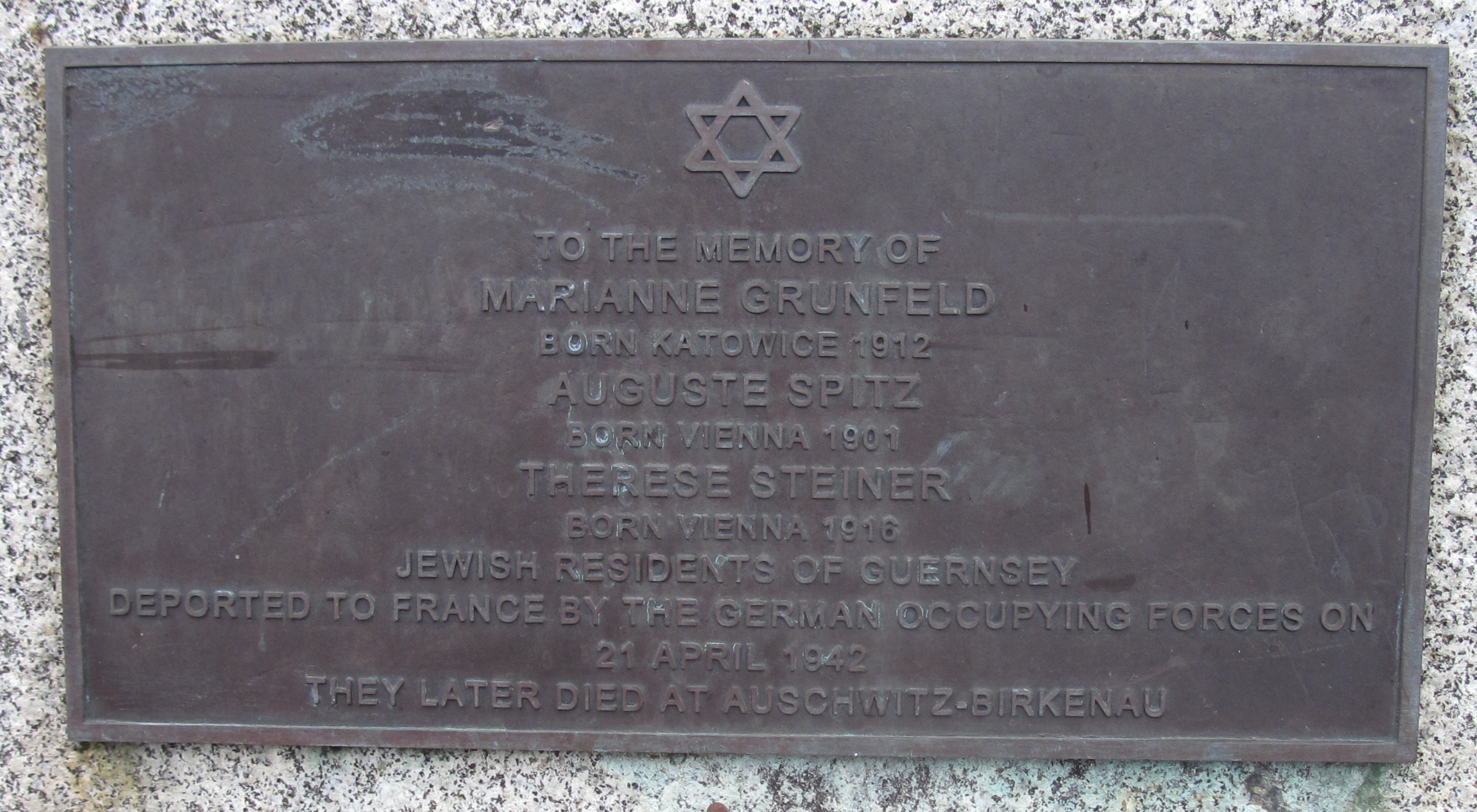 Guernsey, 2 July 2010: plaque